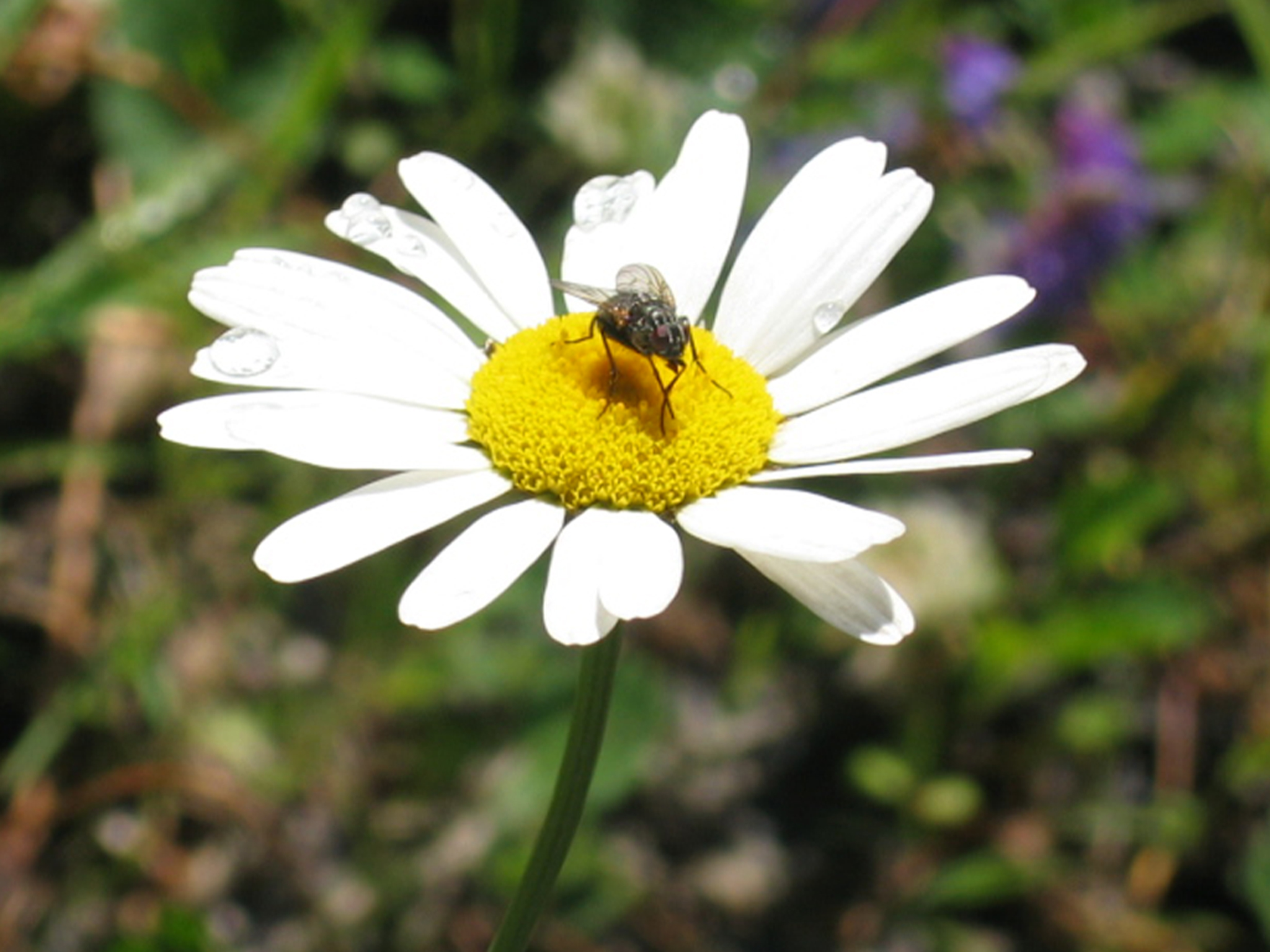 The oxeye daisy (Leucanthemum vulgare) is a widespread flowering plant from the asteraceae family.